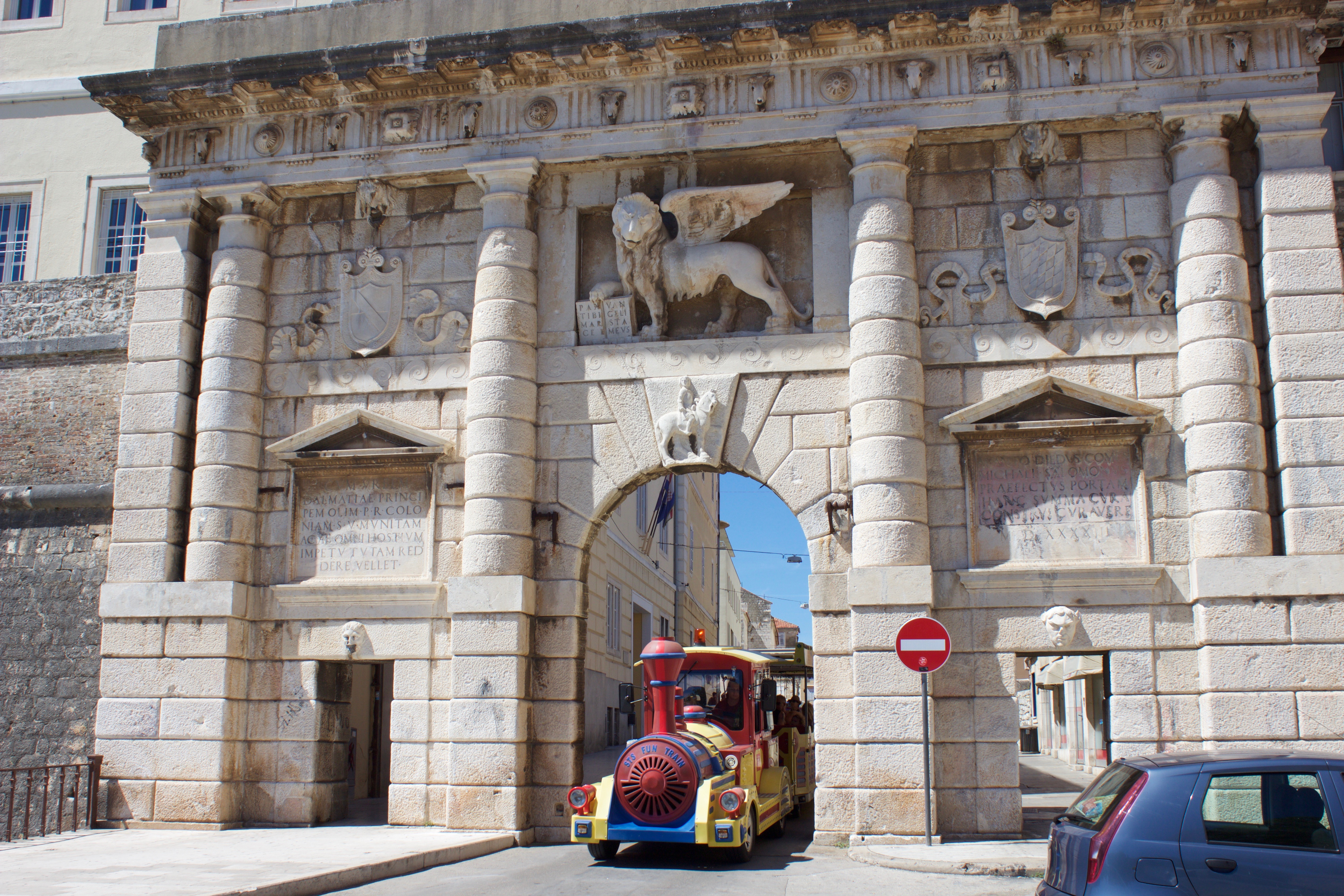 gate of zadar